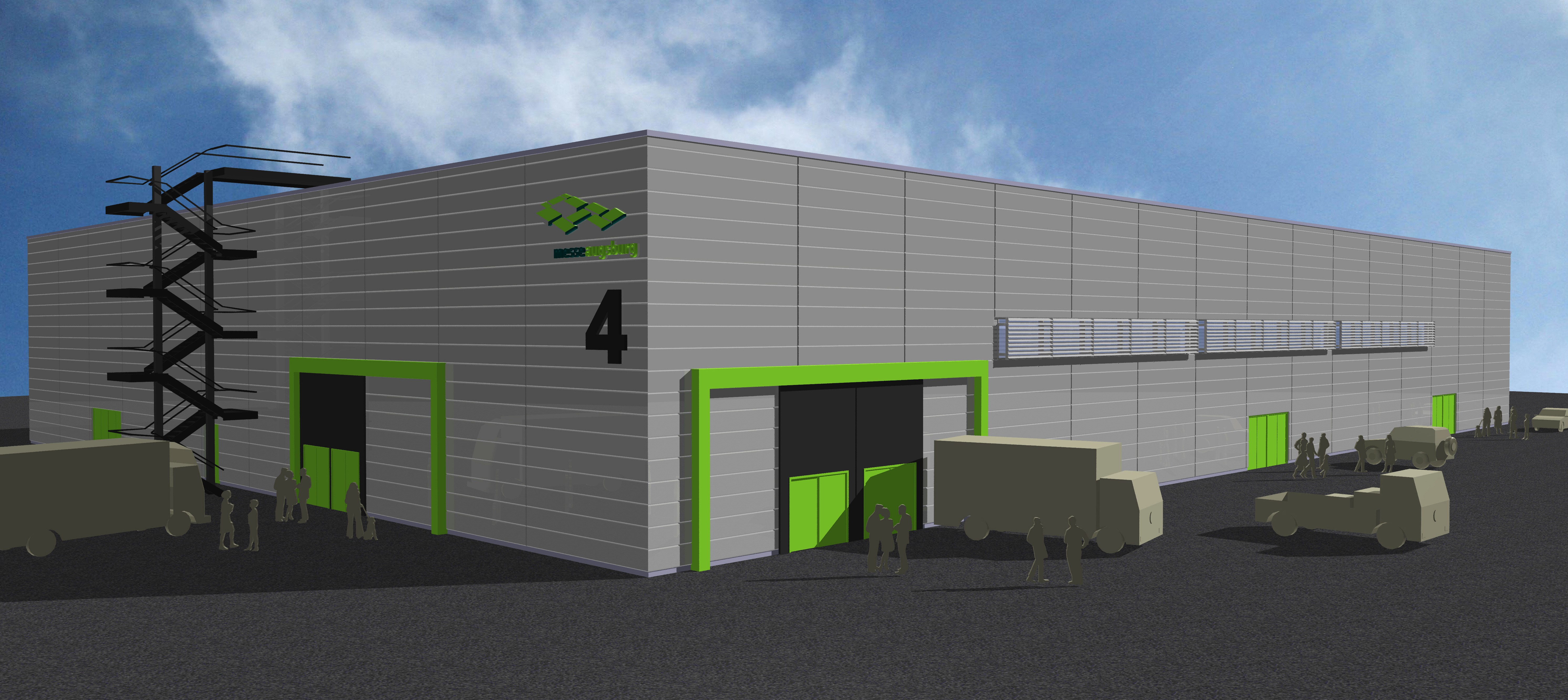 Messe Ausgburg